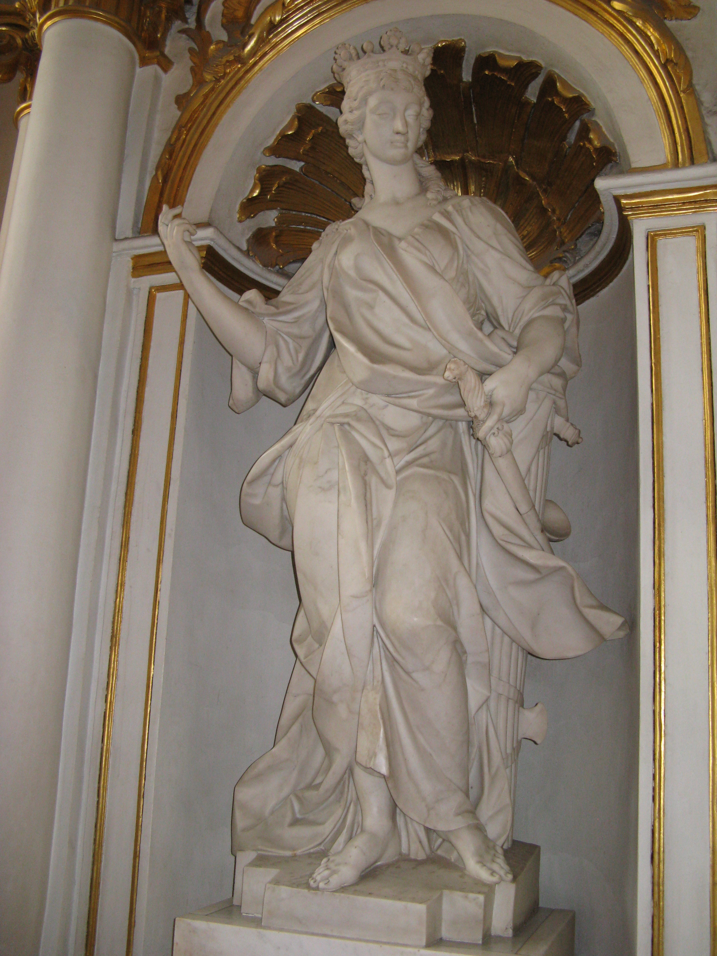 Justice by Alvise Tagliapietra Early 18th century Marble. H. 202 cm. at Main Staircase of the Winter Palace in the Hermitage.